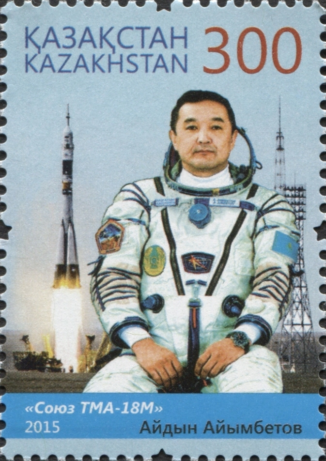 Space - Kazakh cosmonaut Aidyn Aimbetov in space